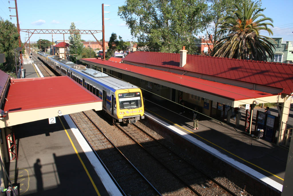 View of Fairfield railway station, Melbourne looking away from Melbourne